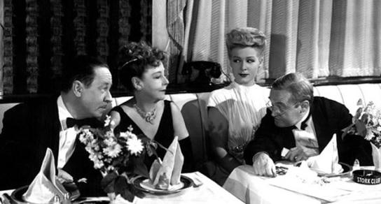 L. to R. : Robert Benchley, Mary Young, Betty Hutton & Barry Fitzgerald in The Stork Club - publicity still (cropped)